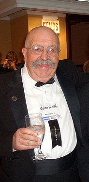 Gene Wolfe, science fiction writer, at the 2005 Nebula Awards ceremony in Chicago